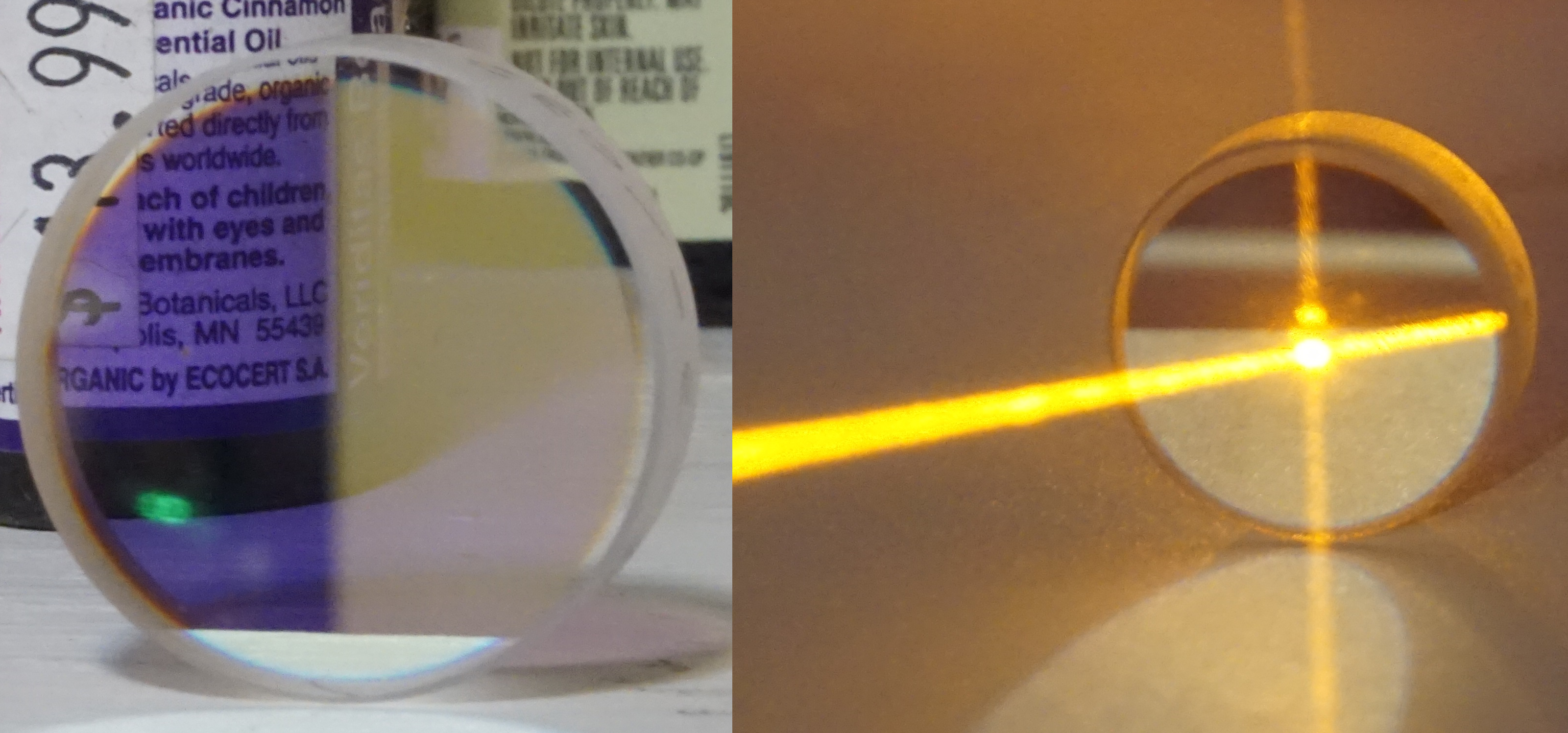 A laser output coupler measuring 1 inch in diameter and 3/8 inch thick, with a flatness of 1/20 of the wavelength of the light. The coating is centered at 550 nm, and is 75--80% reflective to wavelengths between 500 and 600 nm. The photo on the left shows its reflectivity to yellow light but its high transmissivity to red and blue light. The photo on the right shows it both reflecting and transmitting 589 nm laser light. Due to the nature of lasers, the beam appears brighter when coming toward the observer than it does when moving away.